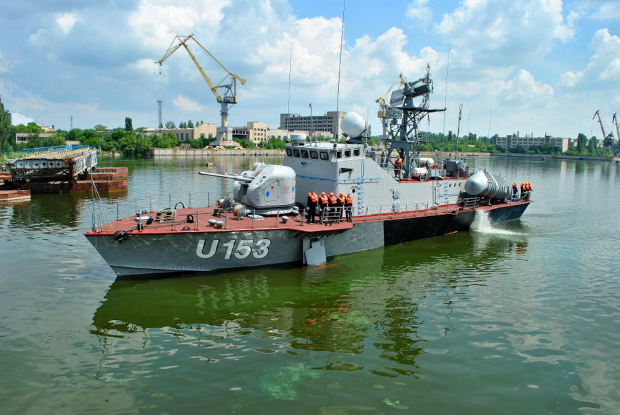 Pryluky (ship, 1980)